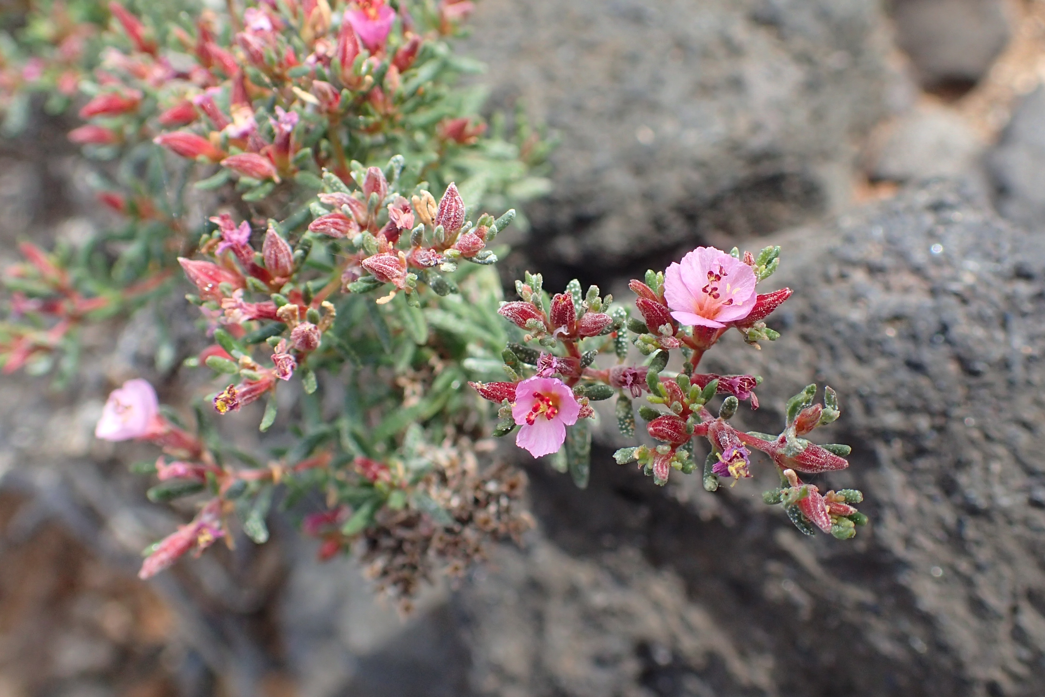 Frankenia pulverulenta in Los Roques, Tenerife, Canary Islands, Spain